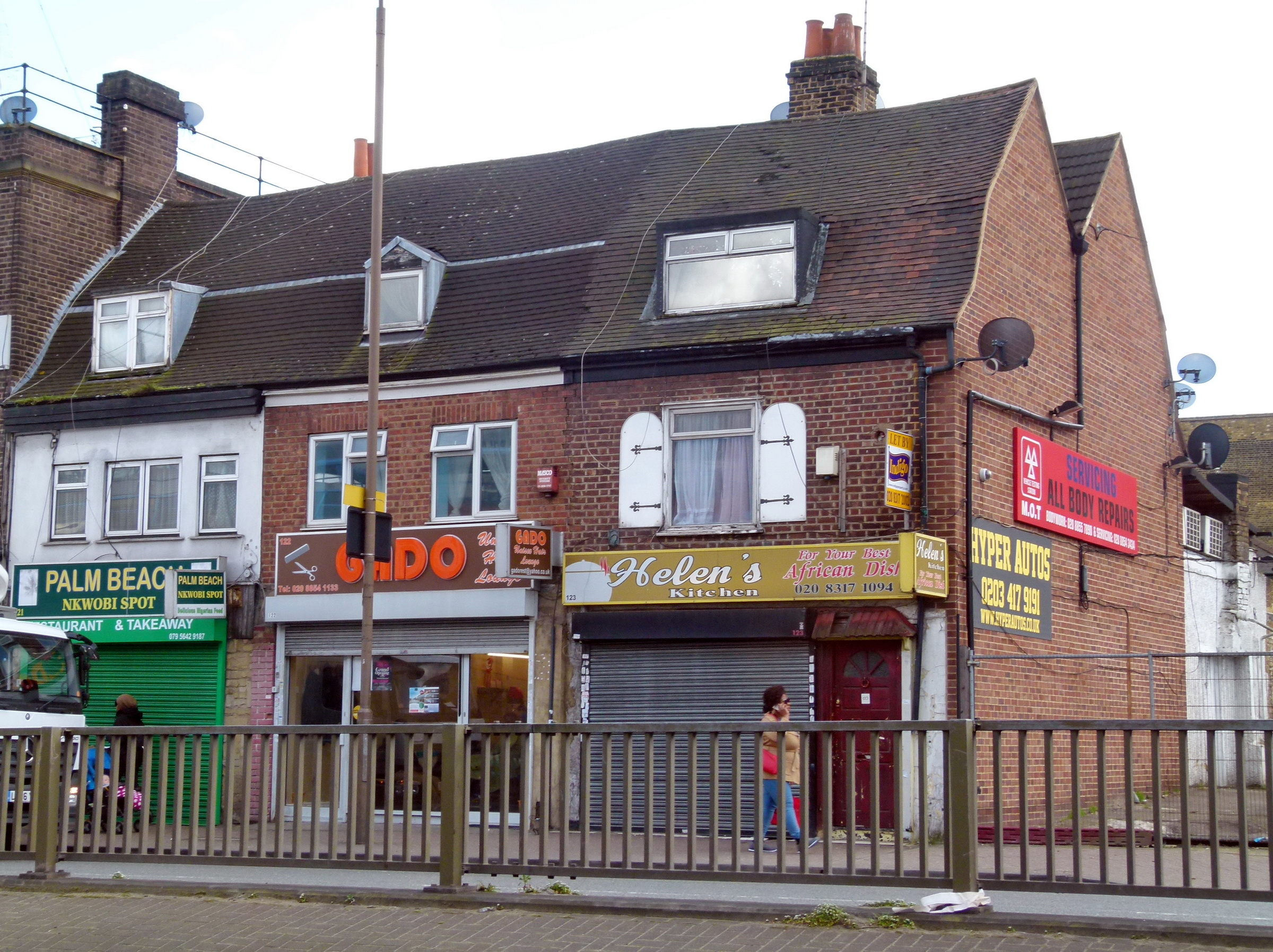 View from the north of Woolwich High Street in Woolwich, South East London, UK.